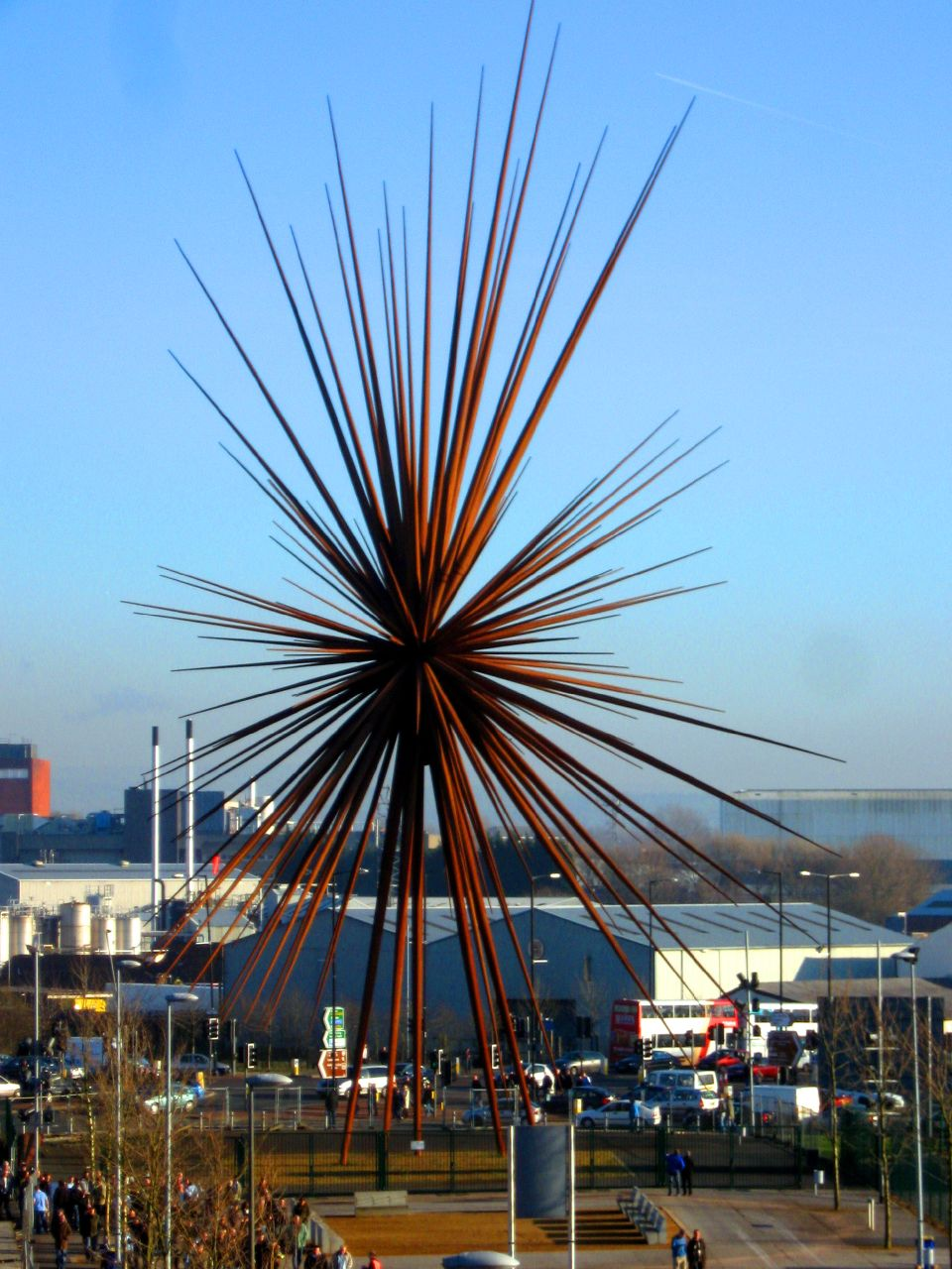 The B of the Bang, Manchester, England.